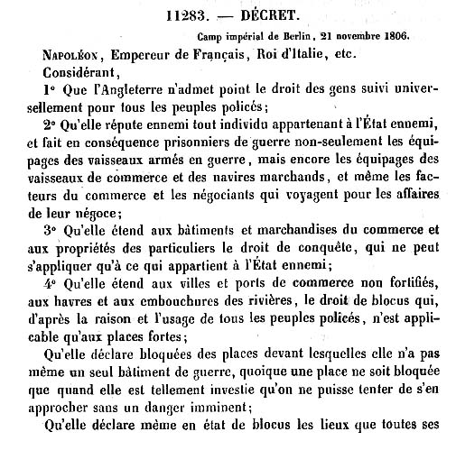 Treaty of Berlin, signed 21 November 1806. Page 1 of 3.